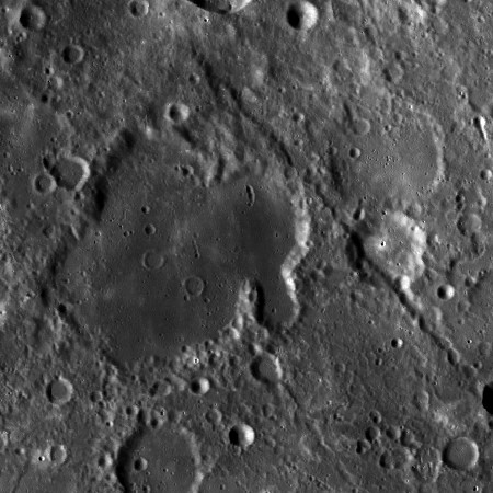 Artamonov crater